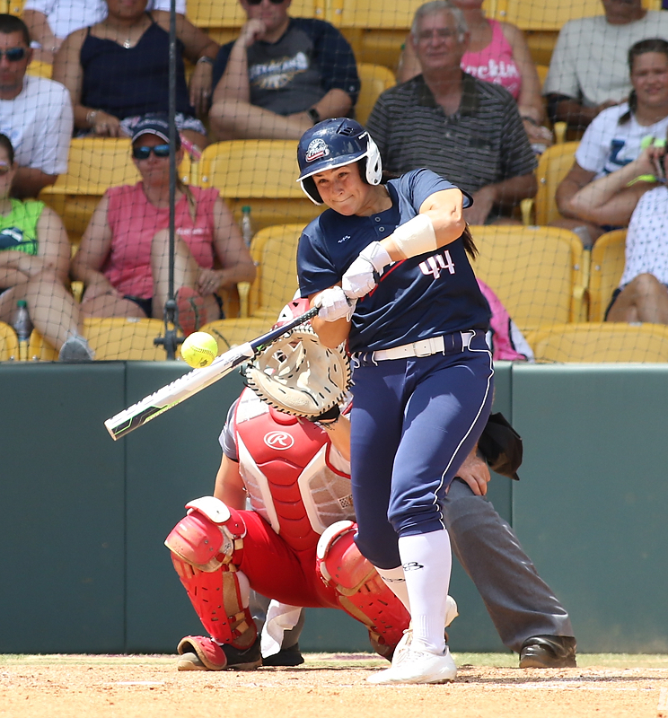 Lauren Chamberlain playing for the USSSA Pride in 2017